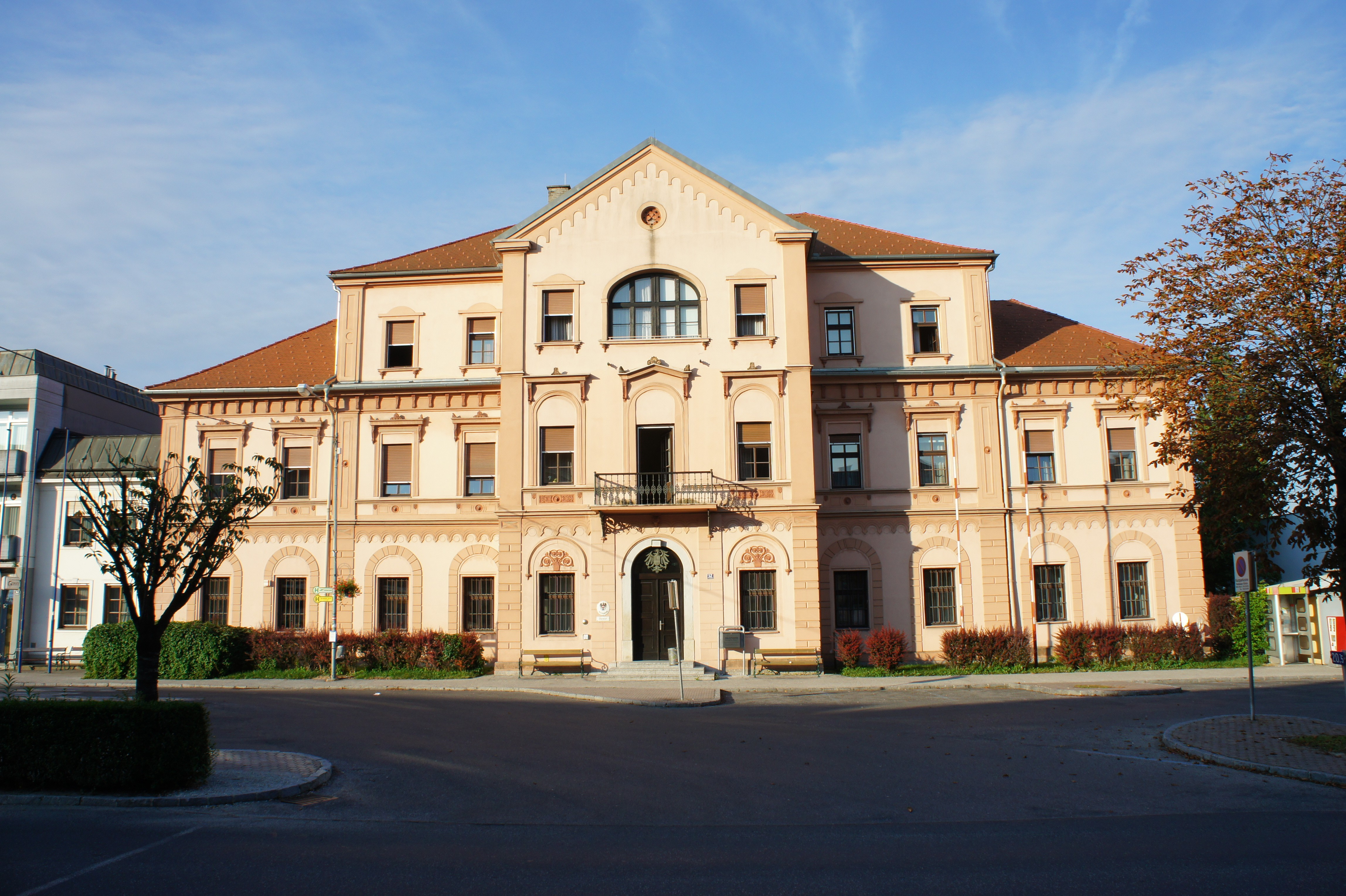 Circuit court house, Oberwart, Austria